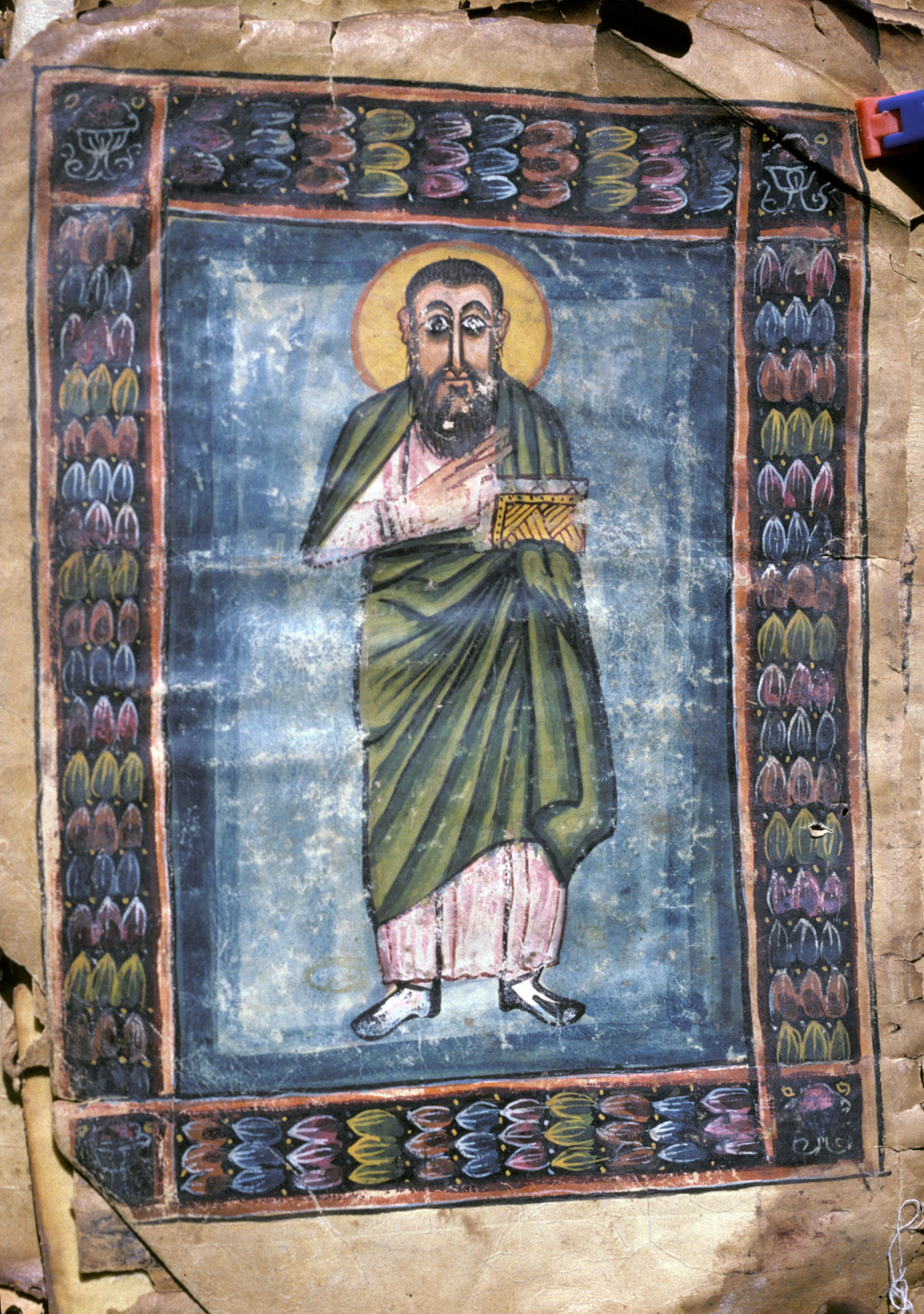 Image of Eusebius preceding his Eusebian Canons in the Garima Gospels. His portrait lacks a cross on Gospel and the white scroll of Luke and John, meaning it cannot be Matthew